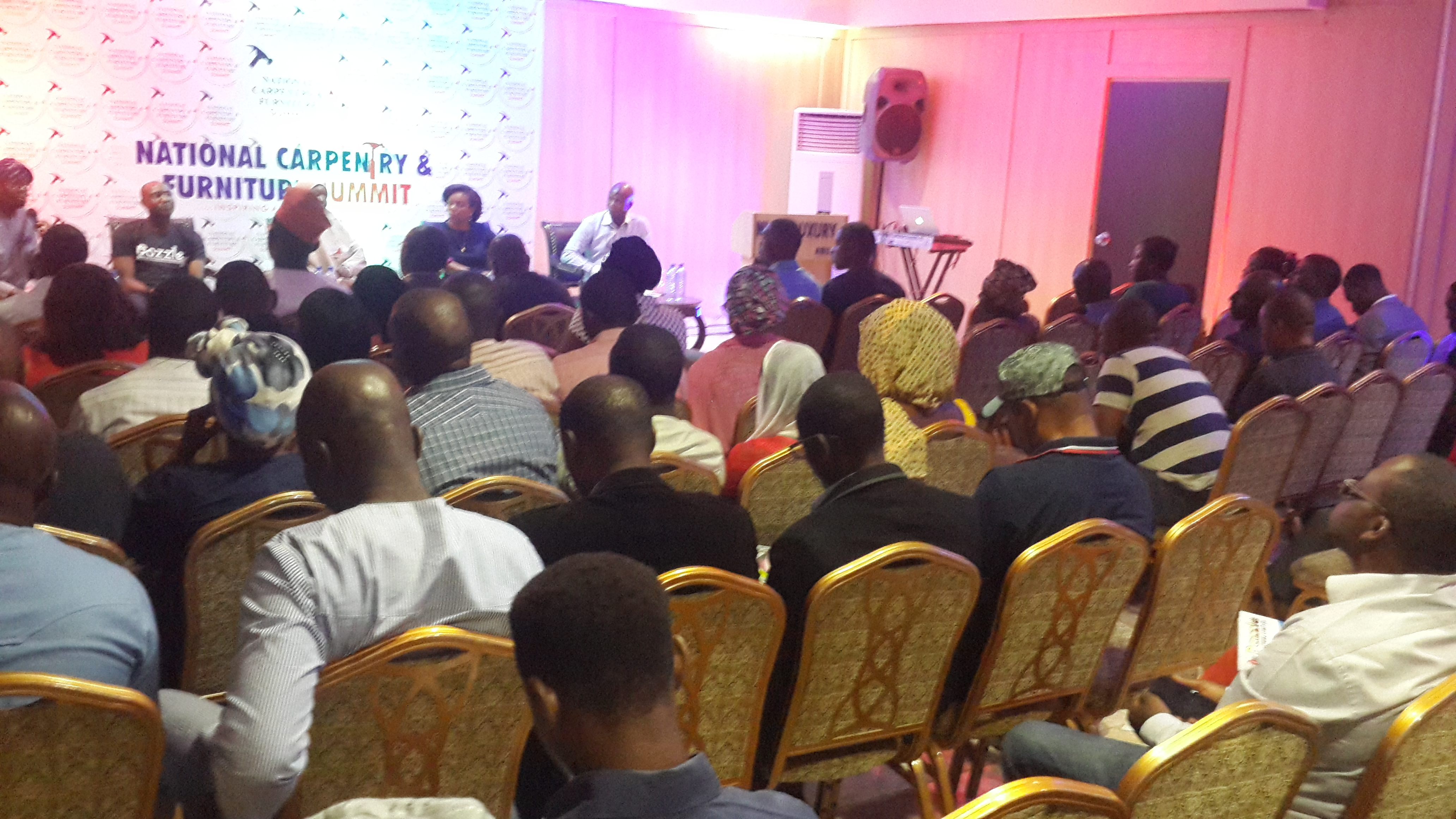 During the National Carpentry and Furniture Summit in Abuja Nigeria